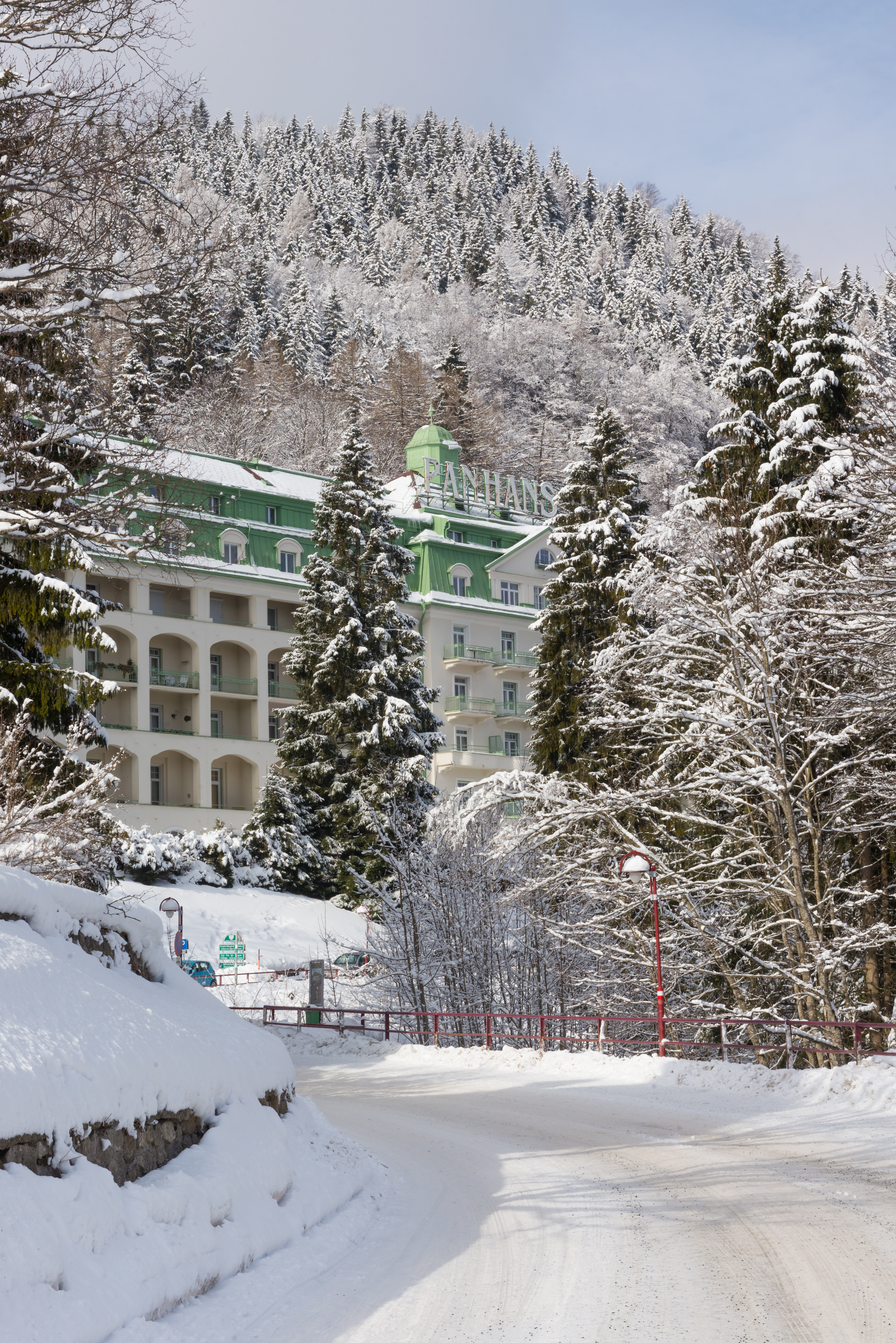 The elder part of Hotel Panhans in Semmering.